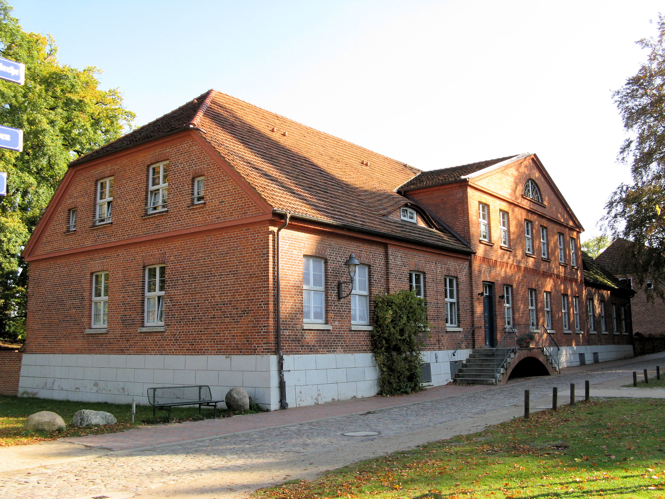 Kitchen chief house in the Monastery Dobbertin, disctrict Parchim, Mecklenburg-Vorpommern, Germany